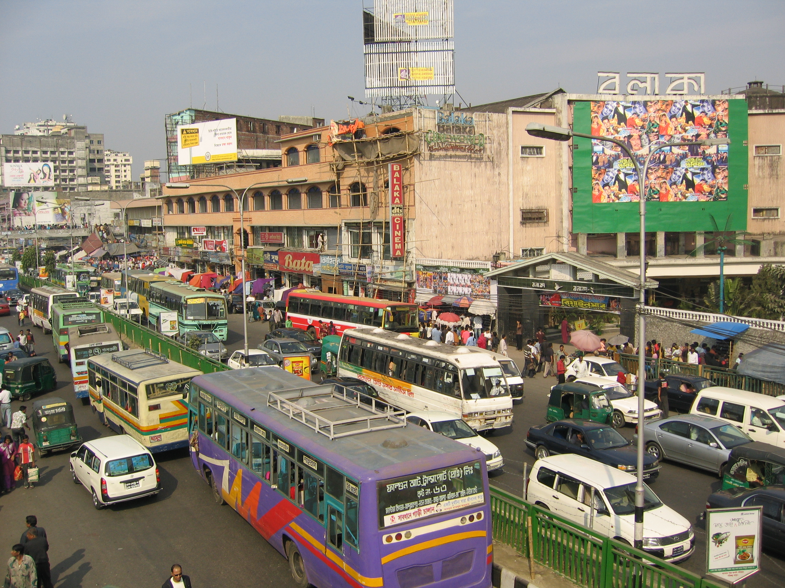 Balaka Cinema Hall, Dhaka New Market. Traffic is very easy here.